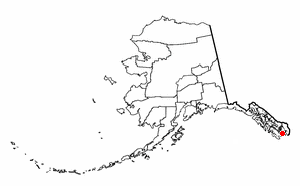 Adapted from Wikipedia's AK borough maps by Seth Ilys.